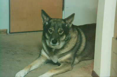 photograph of user's best friend for 14 years, 1980-1994 Lady's picture here with the Reiter's permission... and her own.